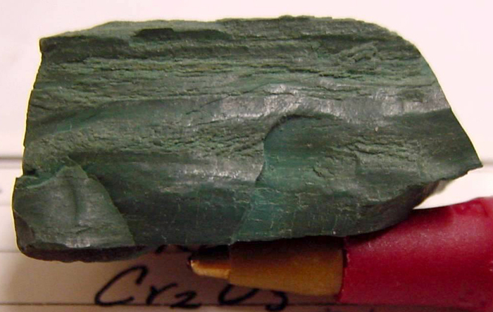 Eskolaite. Pen for scale. Collected from Moscow, Russia, by Franklin S. Harris, 1929. Mineral collection of Bringham Young University Department of Geology, Provo, Utah. Photograph by Andrew Silver. BYU index 4-8046, Cr_2O_3.